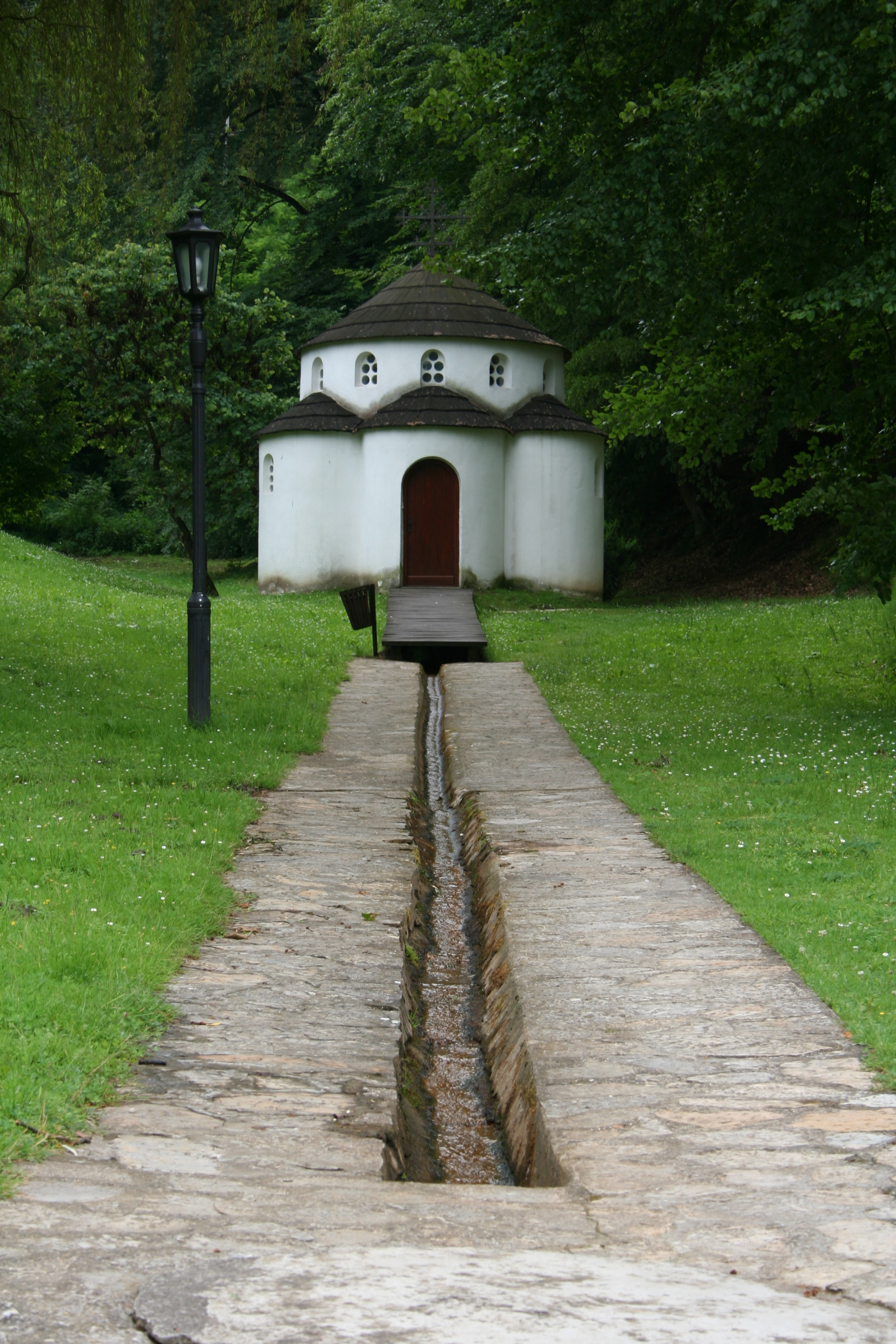 Kaona Monastery